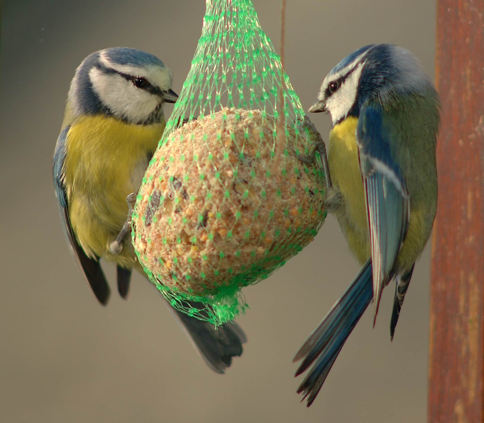 Blue Tit Cyanistes caeruleus (often still Parus caeruleus) in Belgium (Hamois).